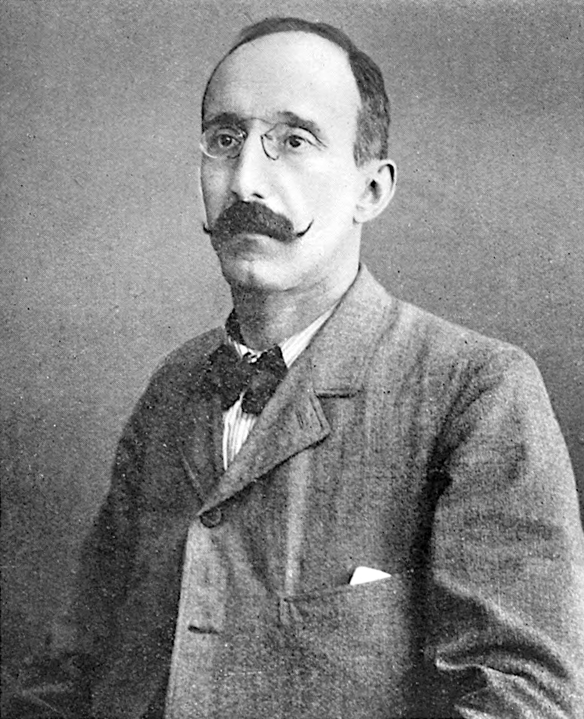 'Leonida Bissolati, The Socialist Leader.'